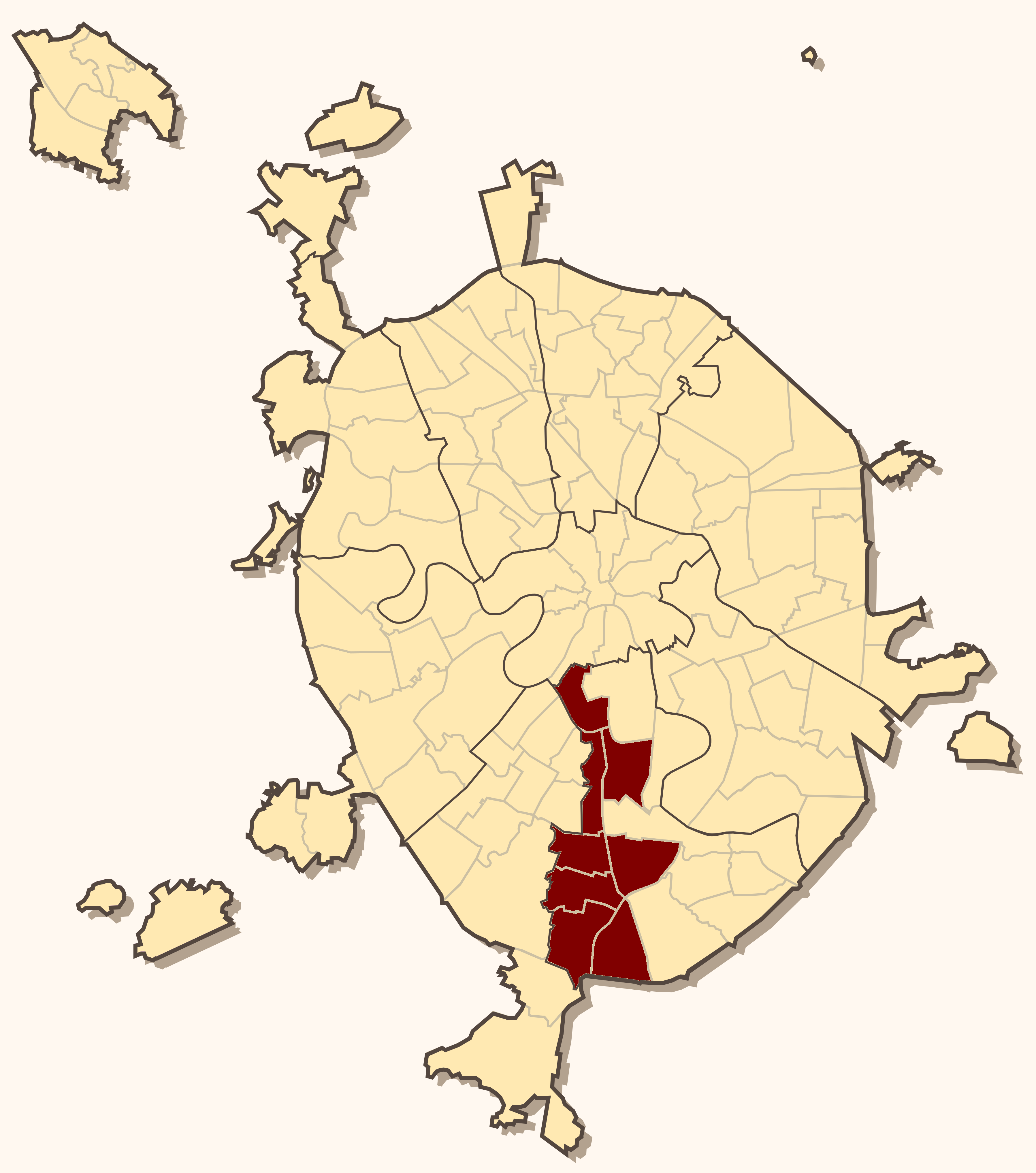 Map of Donskoe Blagochinie of Moscow